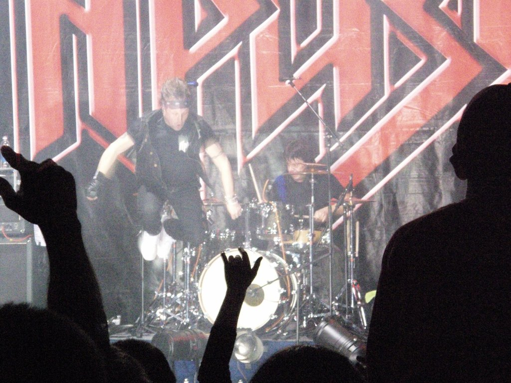 Arthur Berkut, vocalist of heavy metal band Aria, performing at a show in Vladivostok